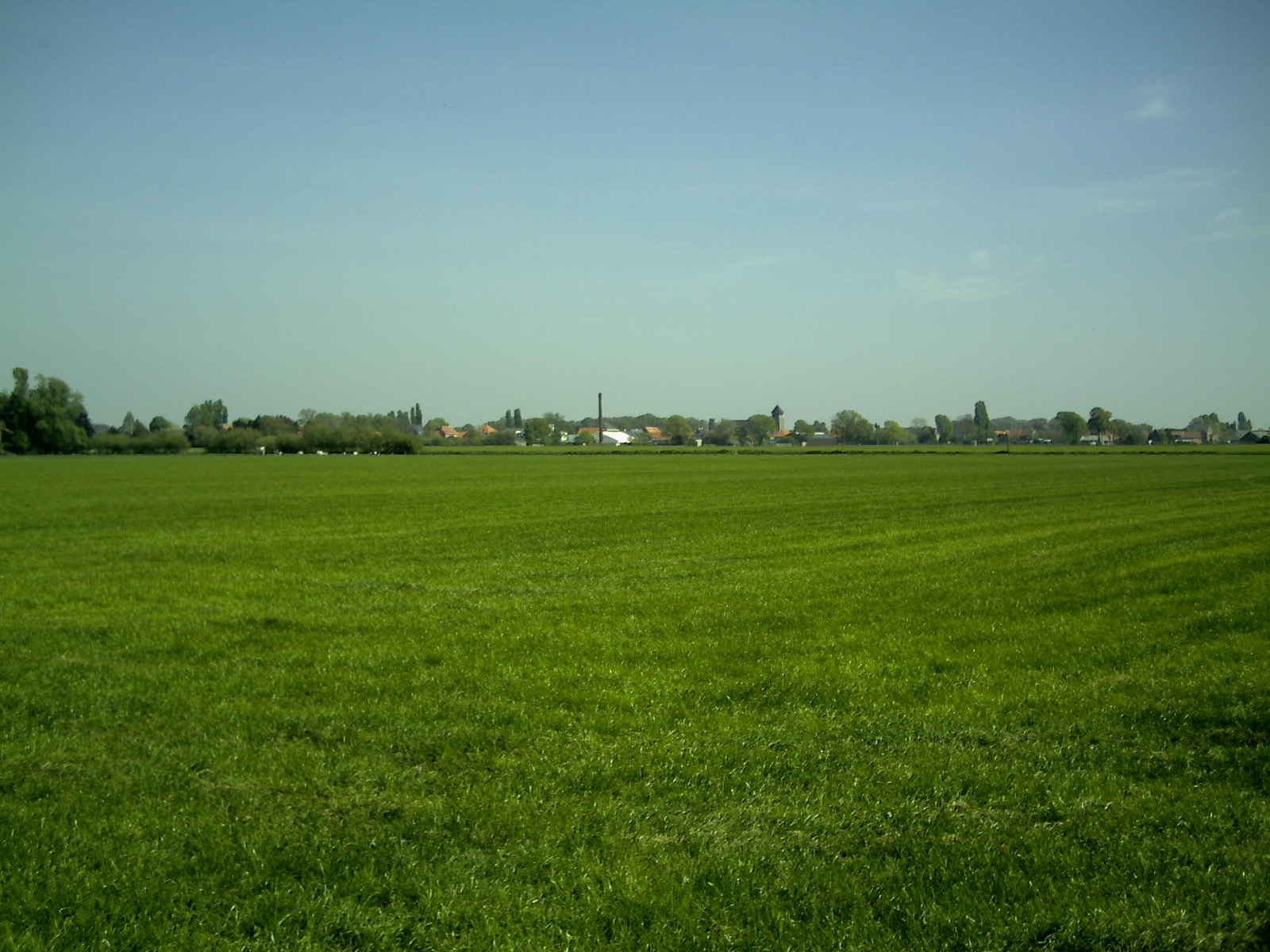 Achterbroek, Kalmthout, Belgium seen from the countryside.